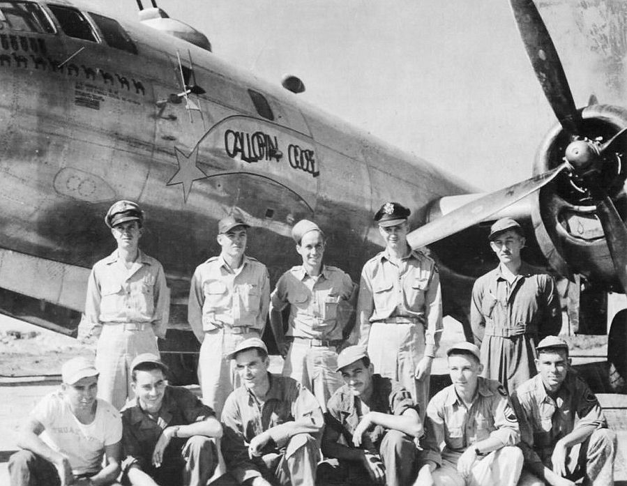 Boeing B-29 Superfortress "Gallopin' Goose." Boeing B-29-15-BW Superfortress s/n 42-6390 794th BS, 468th BG, 20th AF. Aircraft was lost on December 7, 1944 when it was rammed by a Kawasaki Ki-45 "Nick" being flown by Sgt. Shinobu Ikeda of the 25th Dokuritsu Chutai. The fighter had been damaged by fire from another B-29 before it flew into "Gallopin' Goose", tearing off the tail and sending it spinning out of control. Only the tail gunner was able to bail-out. MACR 10101